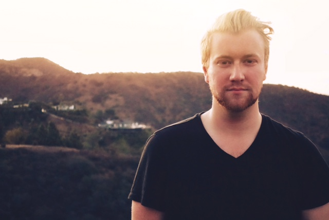 Portrait: October 2016-Los Angeles, CA